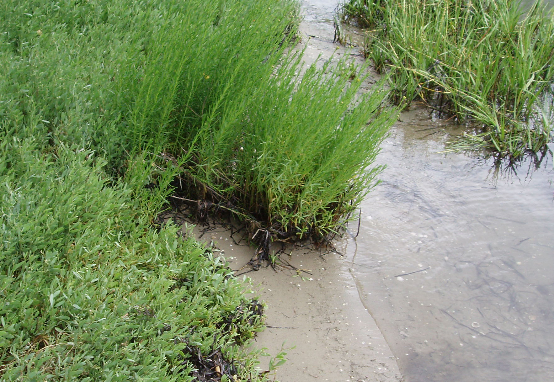 Sandy habitat in Lignano Sabbiadoro (at the Pump Station). The vegetation can be partially under water during high tide. This patch of sand is an excellent habitat for microturbellarians, especially Macrostomum lignano.